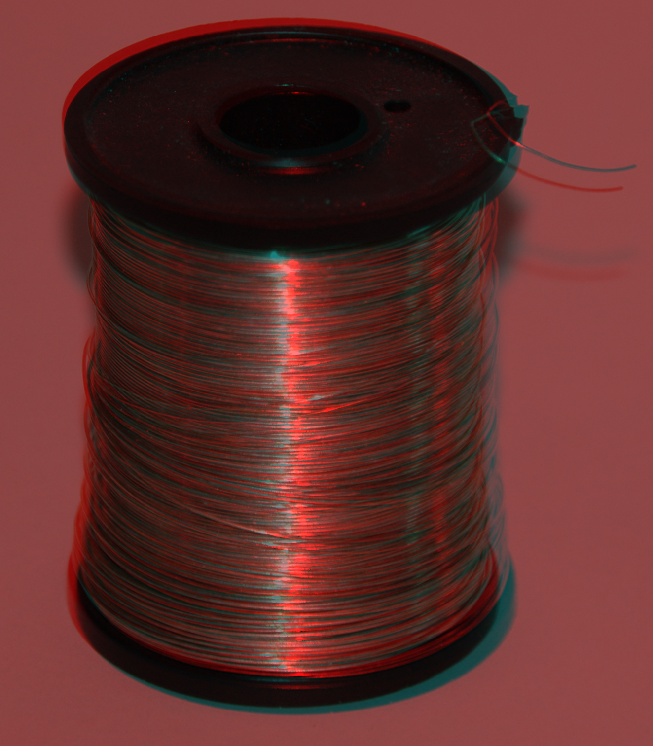 A red/cyan anaglyph of a reel of tinned copper 24swg wire